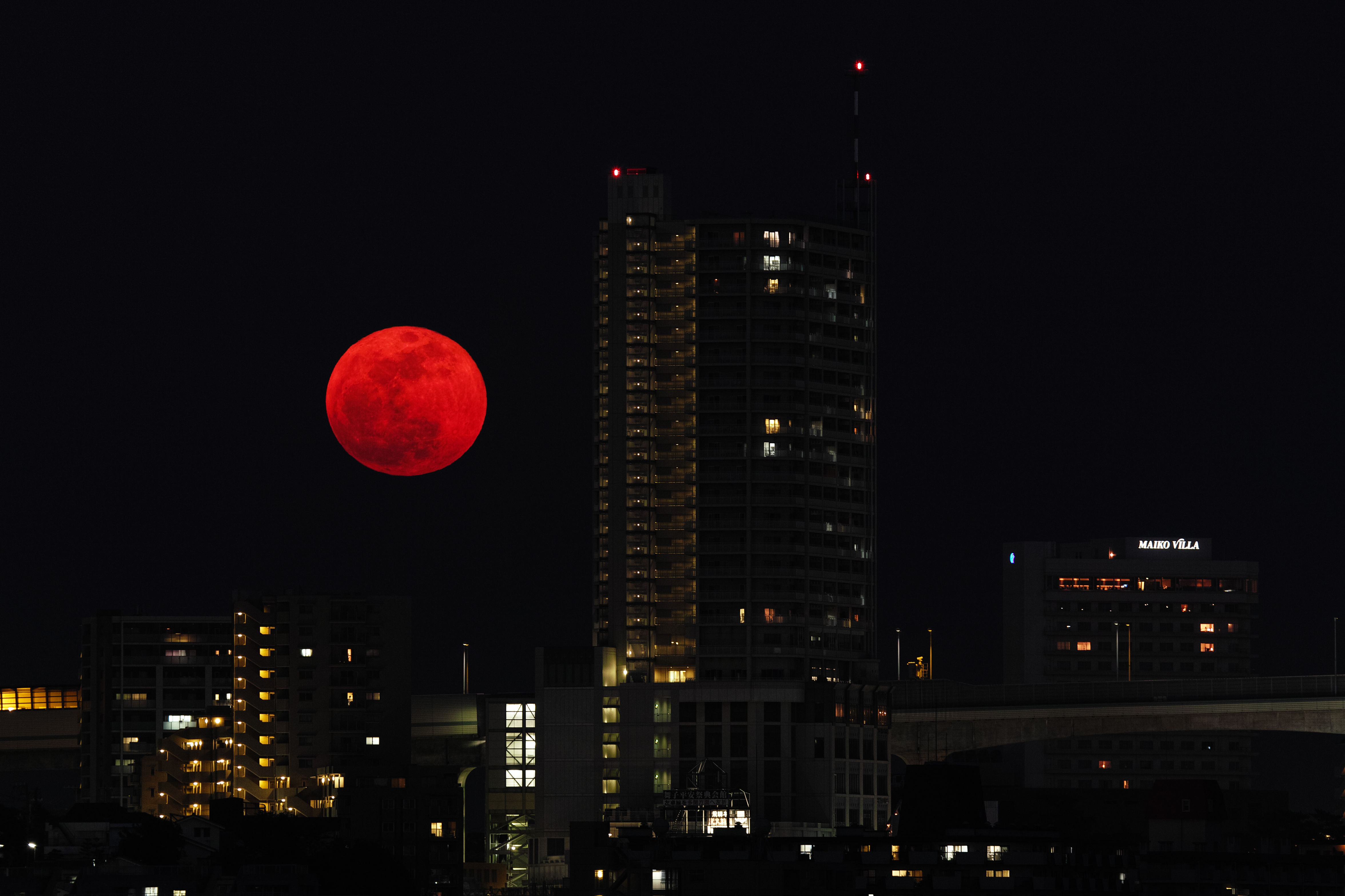 The super moon rising above the bridge. SD1 with 120-300/2.8 at 300mm ISO200 f5.6 1.0sec NR: C0.50/L0.25